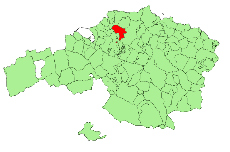 Gatika municipality in the province of Biscay